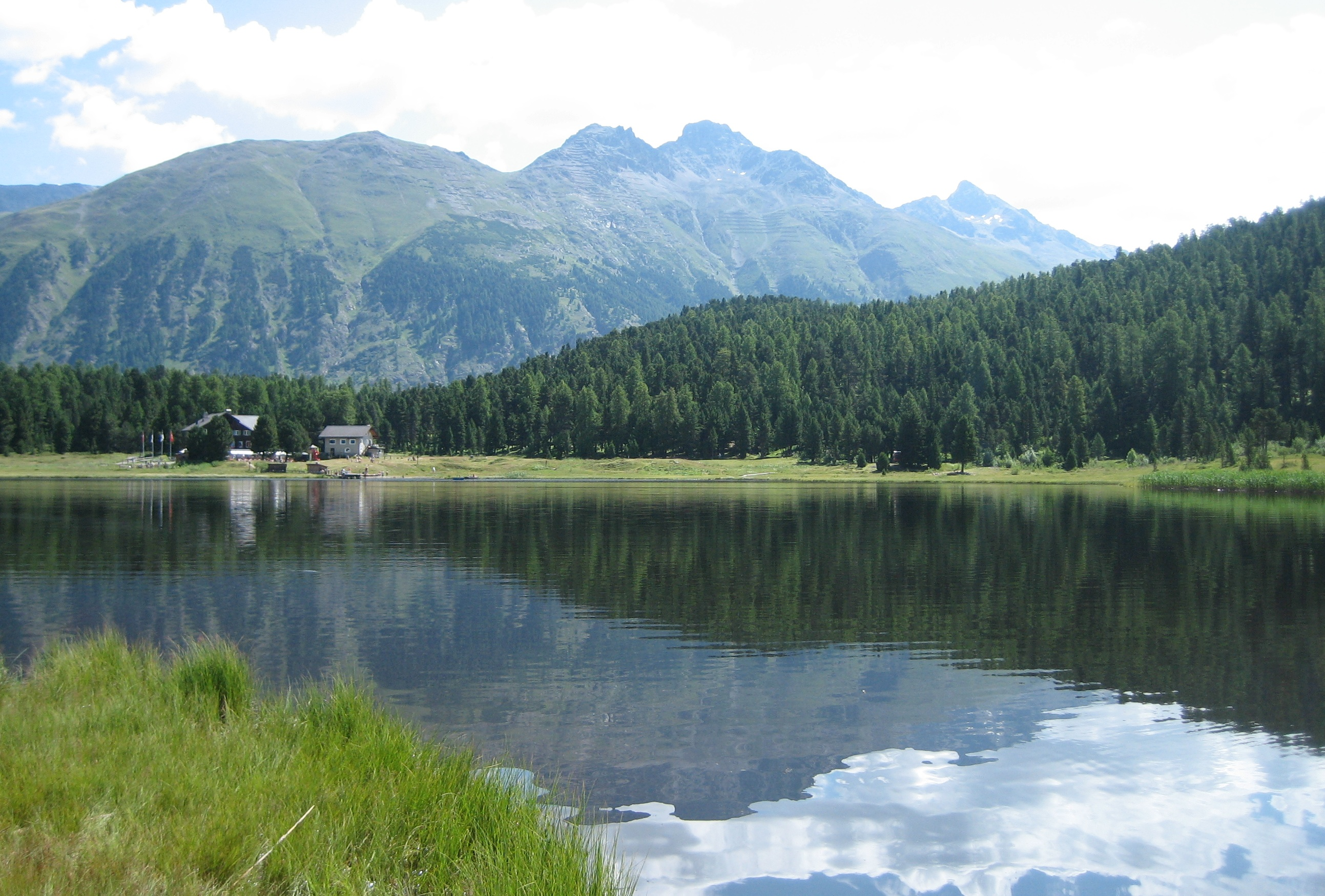 Lej da Staz